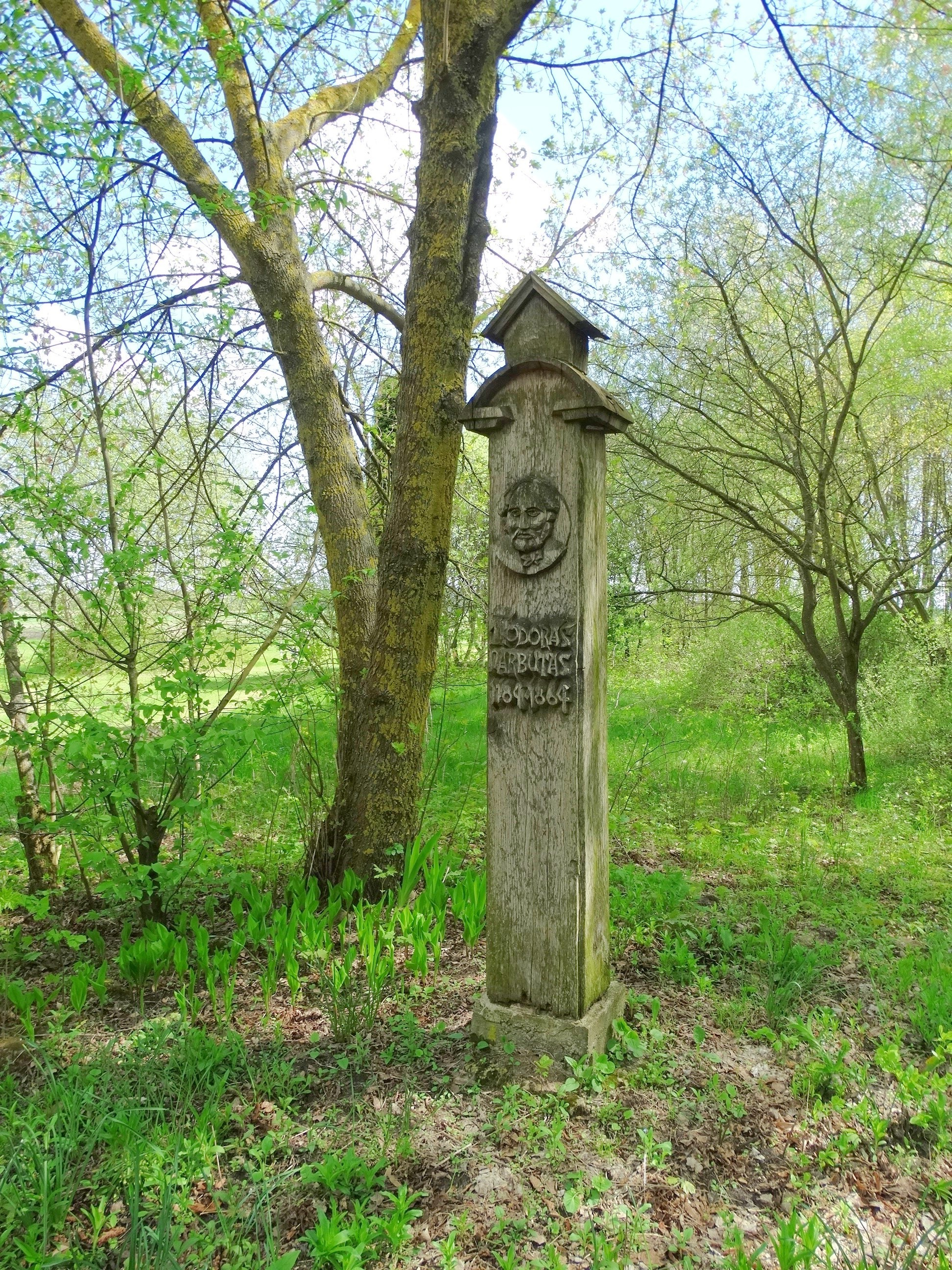 Teodor Narbutt, Eišiškės, Šalčininkai District, Lithuania